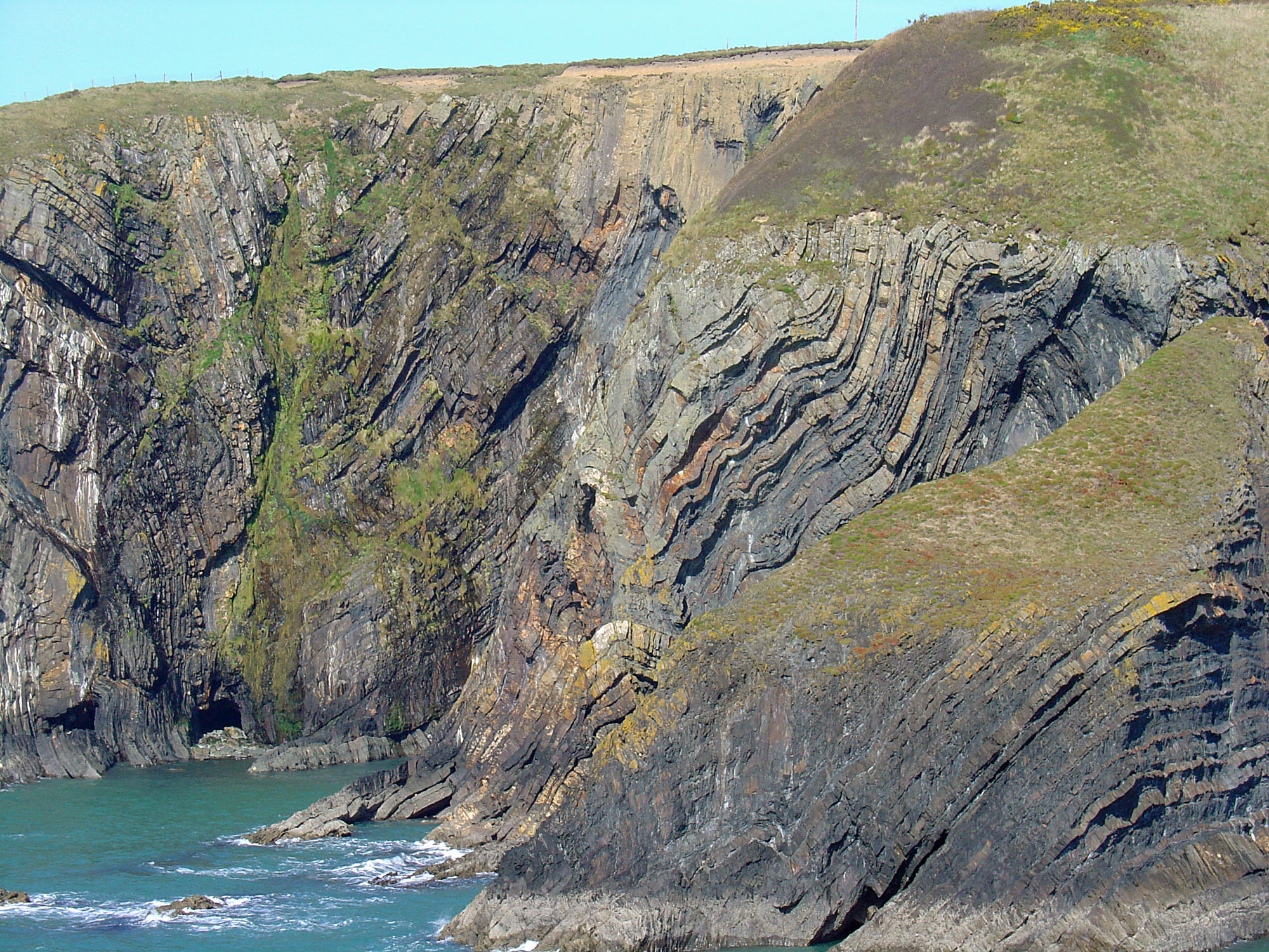 Crumpled mudstone strata, Ceibwr